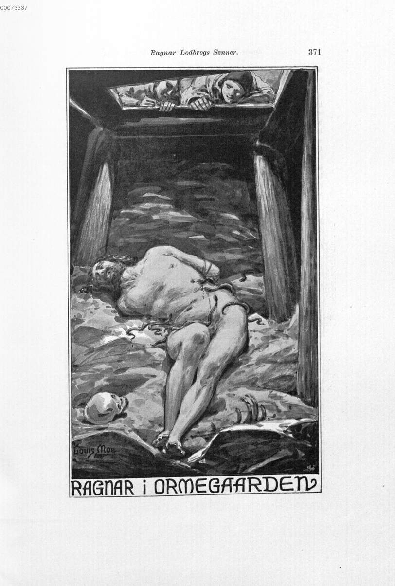 Saxo Grammaticus: Danmarks Krønike (Gesta Danorum) - tr. Frederik Winkel Horn (Danish) - illust. Louis Moe (1898)